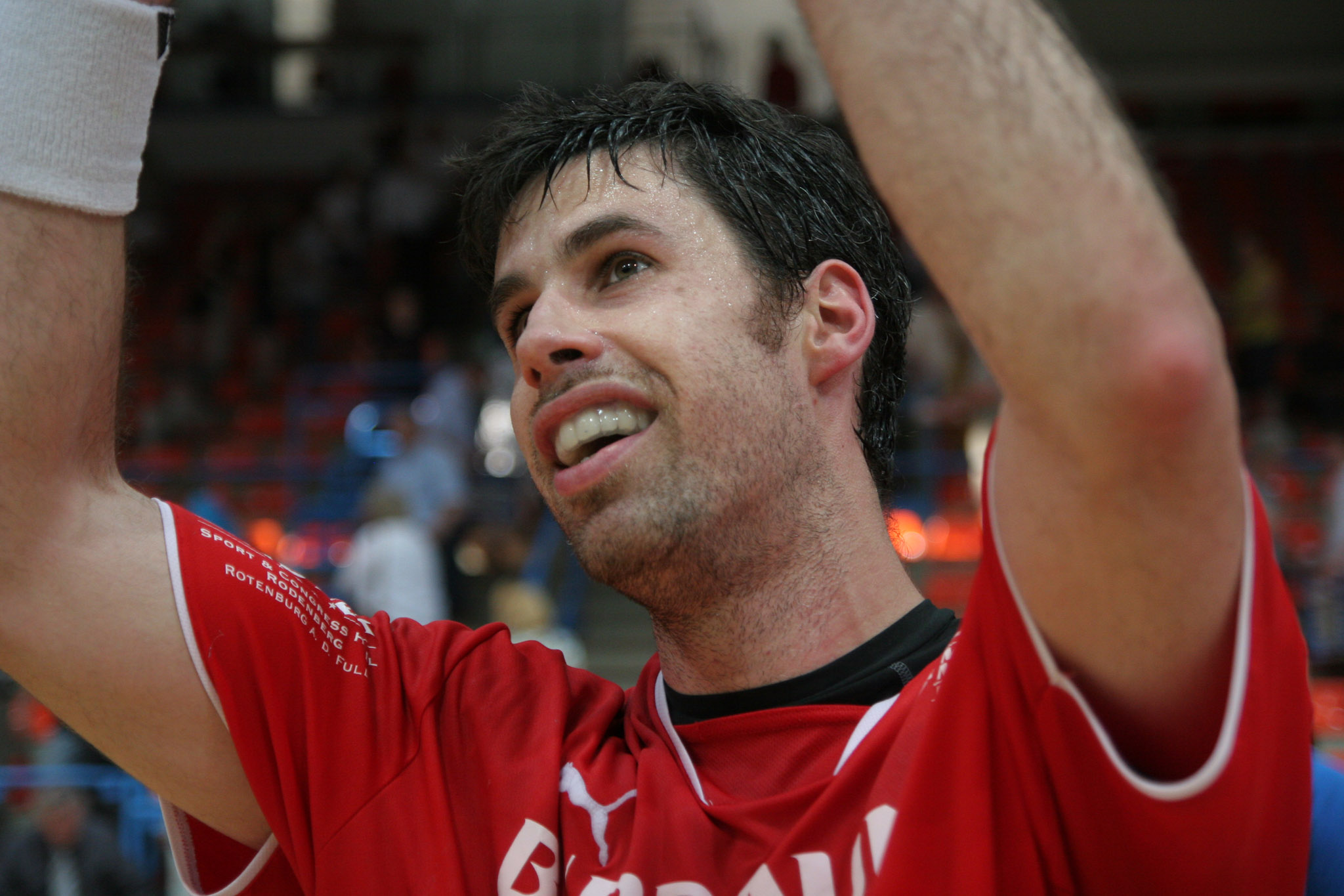 Franck Junillon, handball player from France, playing for MT Melsungen, on May 23rd 2009 in Aschaffenburg (Germany) prior the game TV Großwallstadt vers. MT Melsungen.